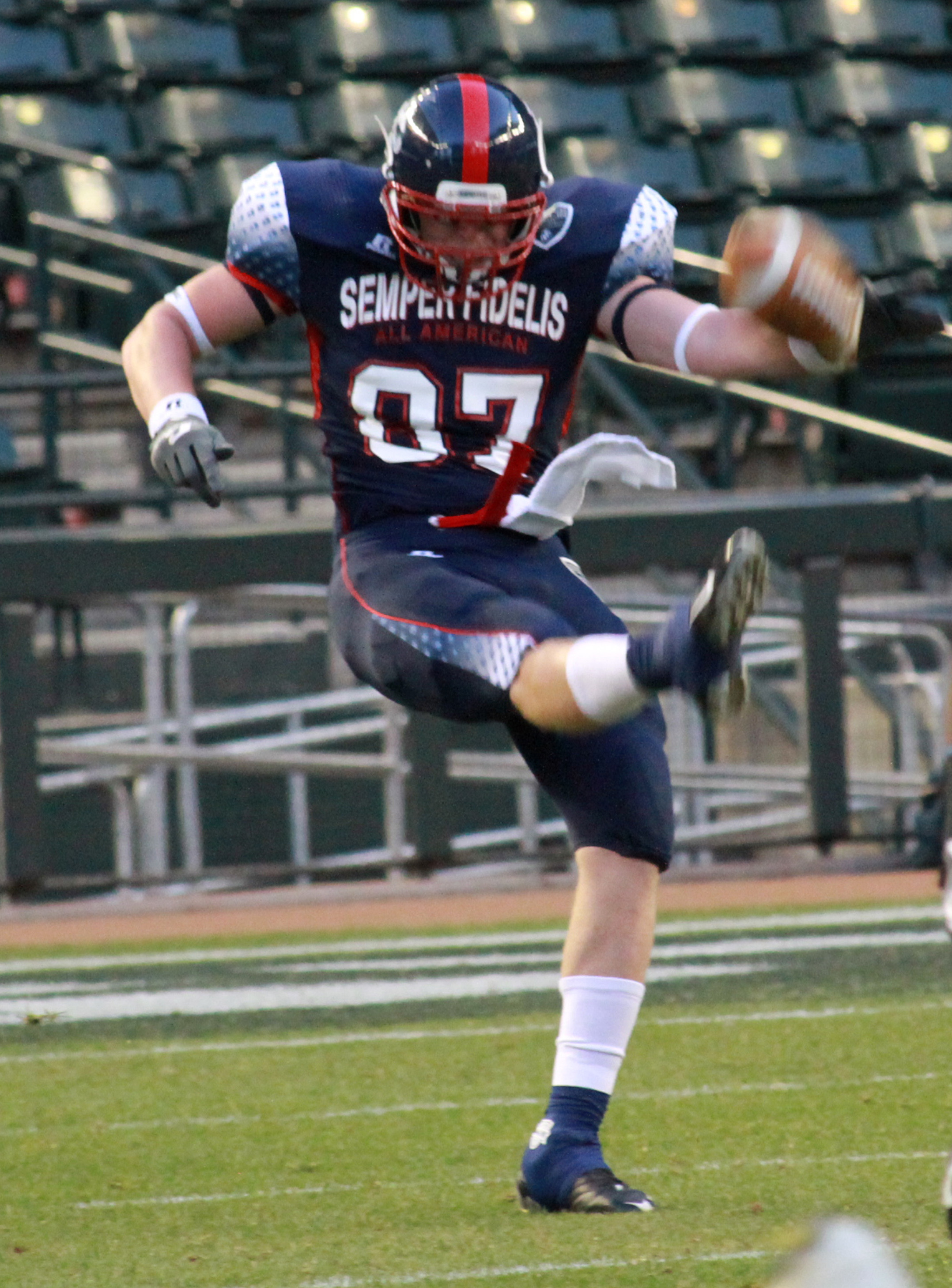 Maxx Williams a punter and tight end on the East Squad out of Waconia High School in Waconia, Minn., punts during the Semper Fidelis All-American Bowl at Chase Field, Jan. 3. Williams is one of Minnesota's top the prospects due in large part to his versatility with numerous positions on the field.